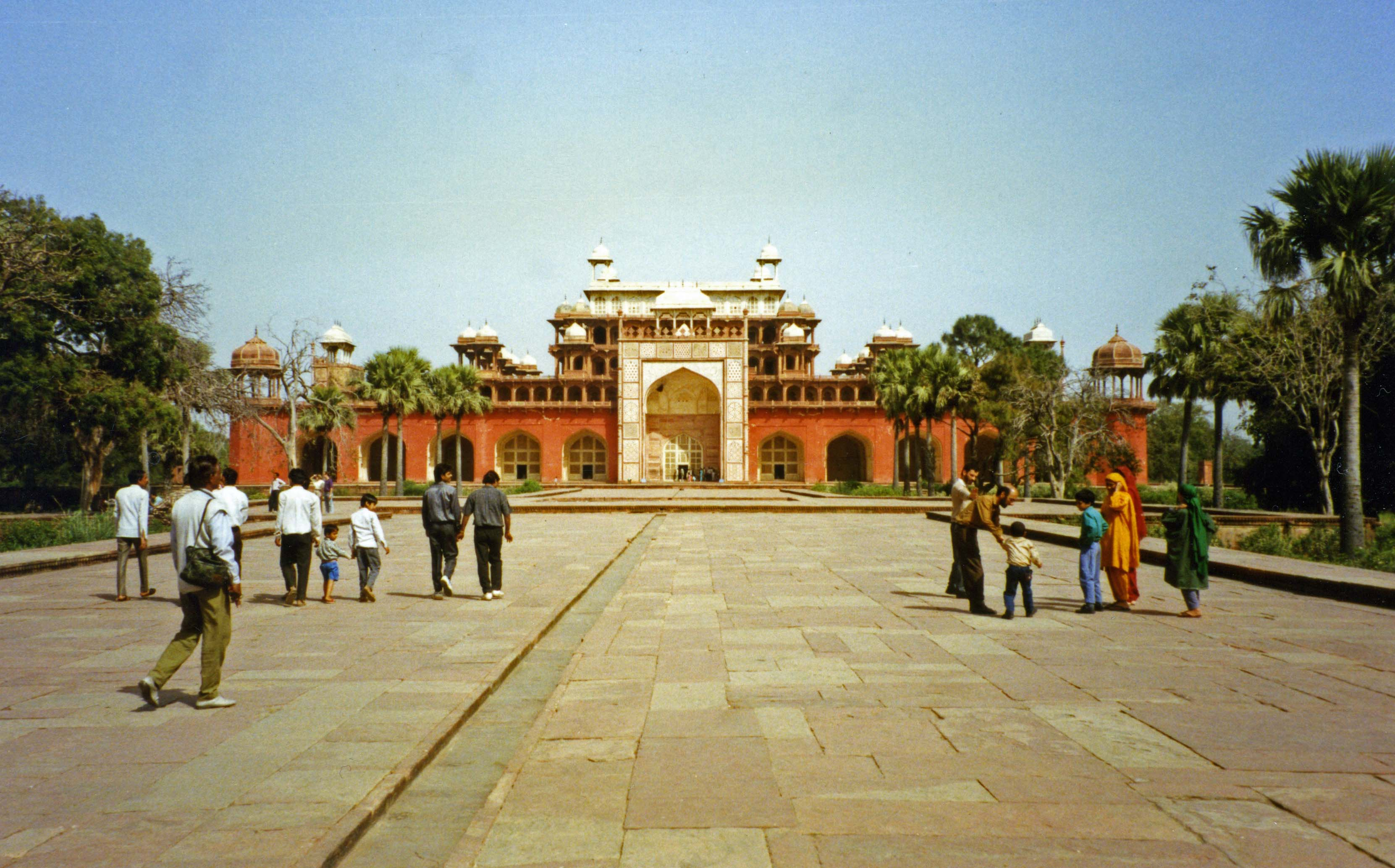 Akbar's Tomb: approach from south